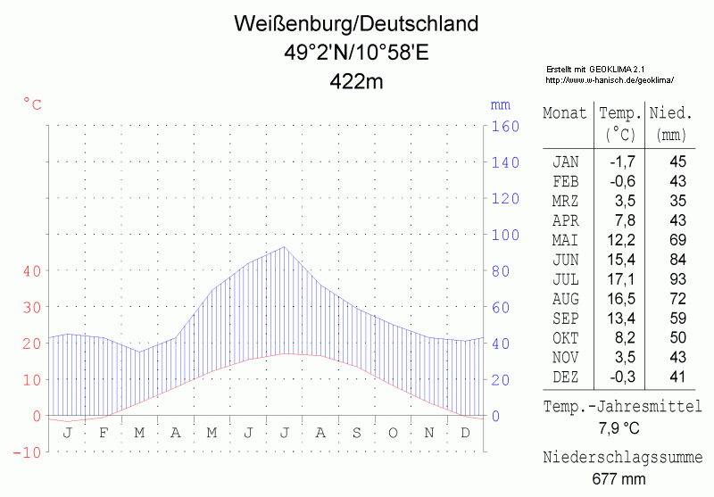 climate chart in the format by Walther and Lieth, metric, °Celsisus and millimeters, made with Geoklima 2.1